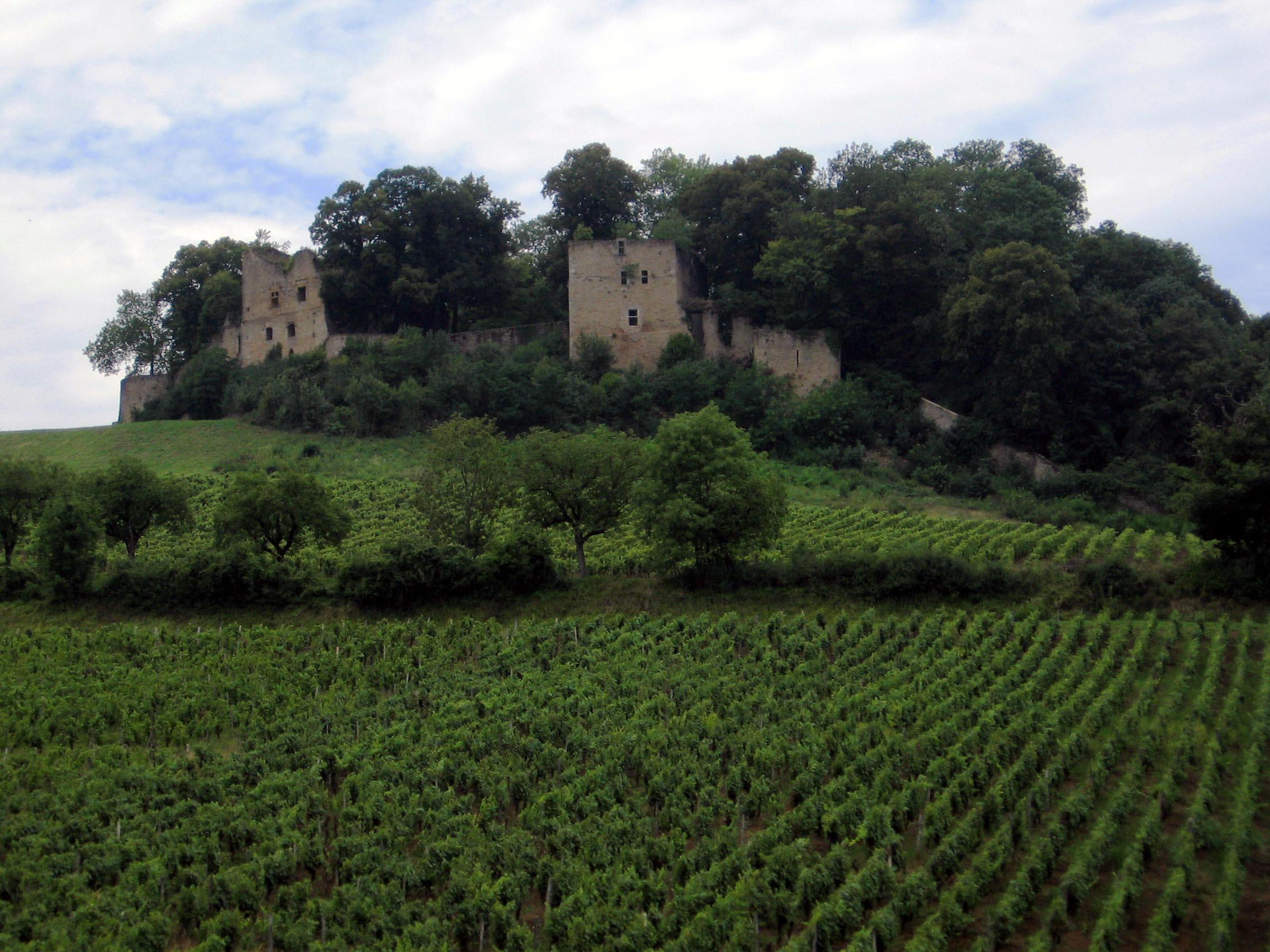 Arlay, castle, France